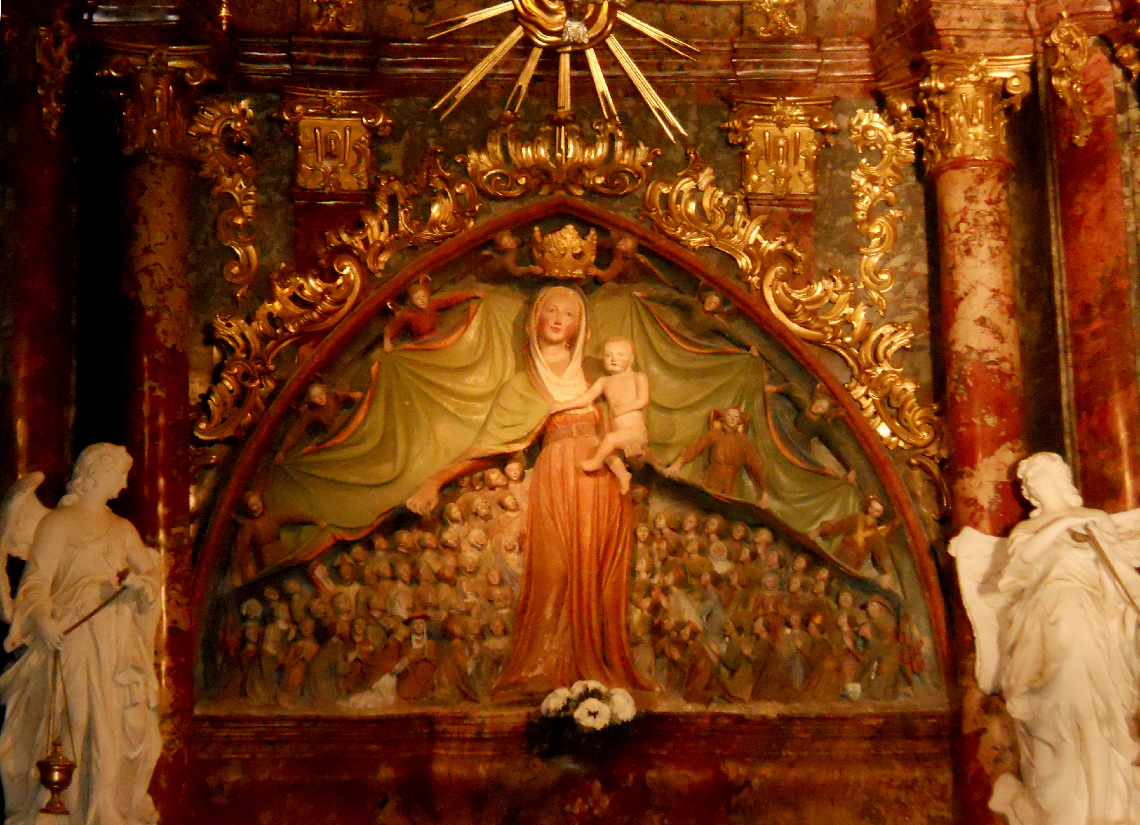 The main altar of Virgin Mary Protectress jacketed; Ptujska gora, Slovenia.